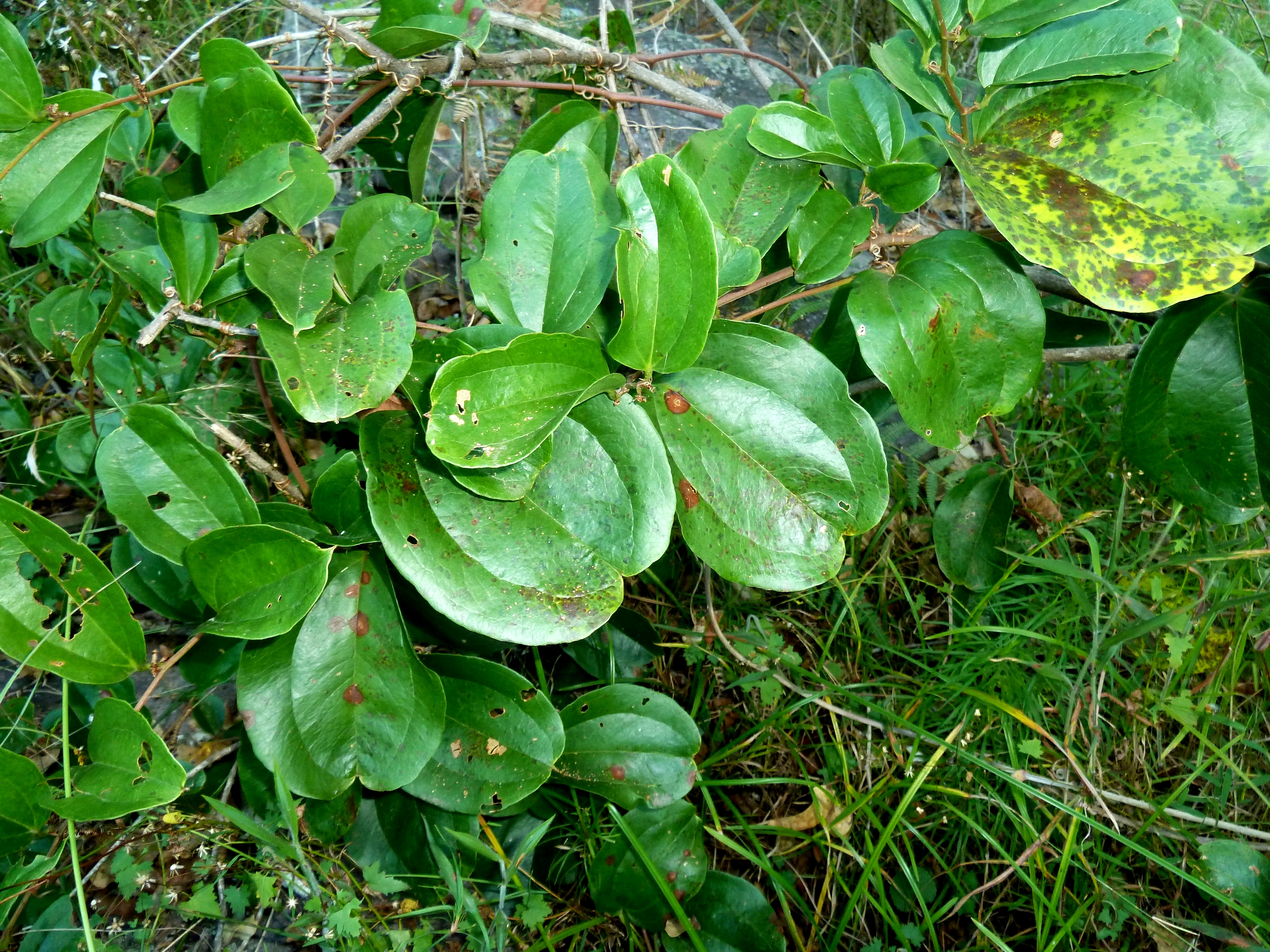 Leg-ripper growing on verge of cliff in Krantzkloof Nature Reserve, KwaZulu-Natal